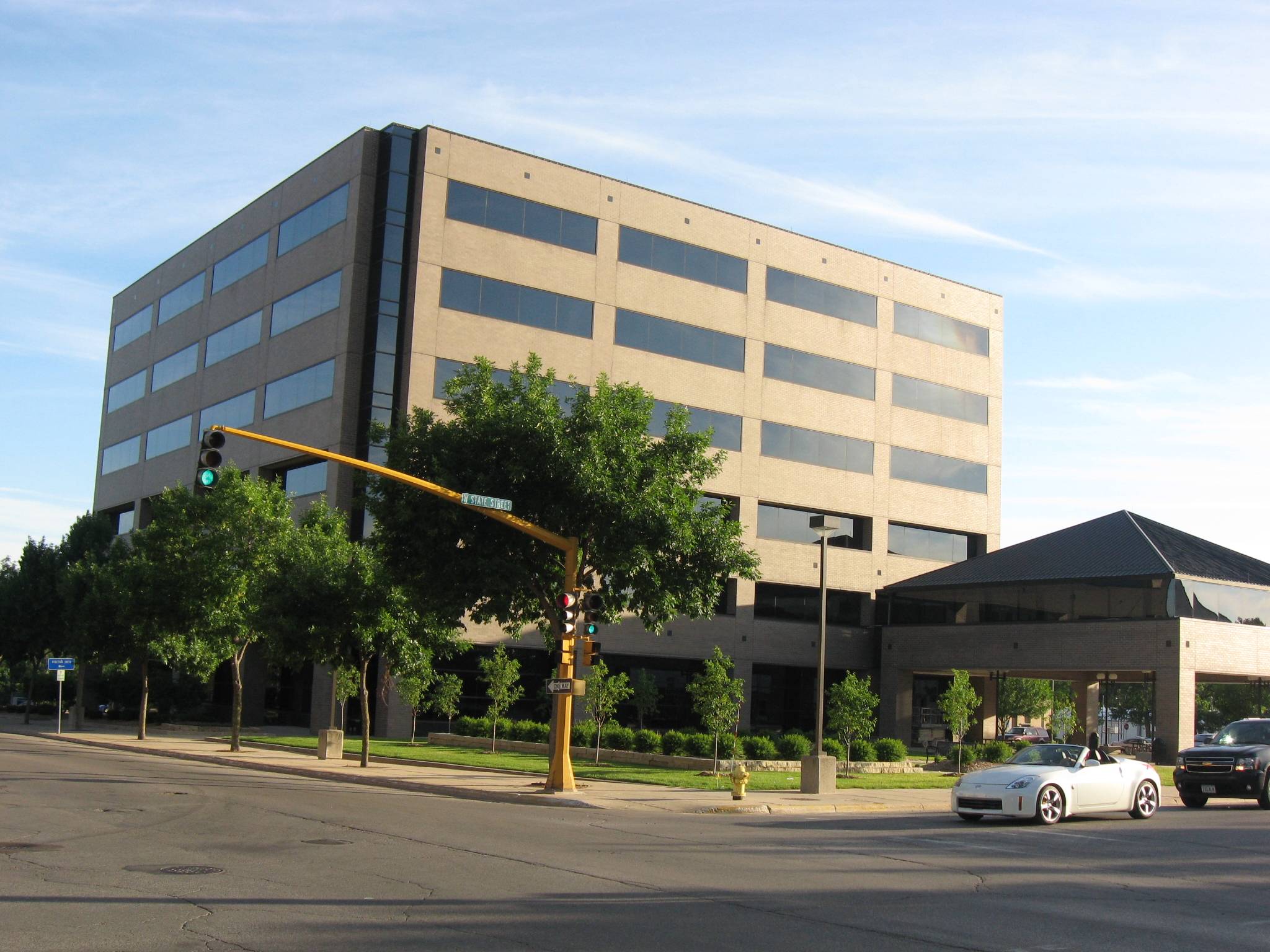 Principal Financial Building in Downtown Mason City, IA. Taken from Google Earth. Original picture taken by Justin J. Teeter.